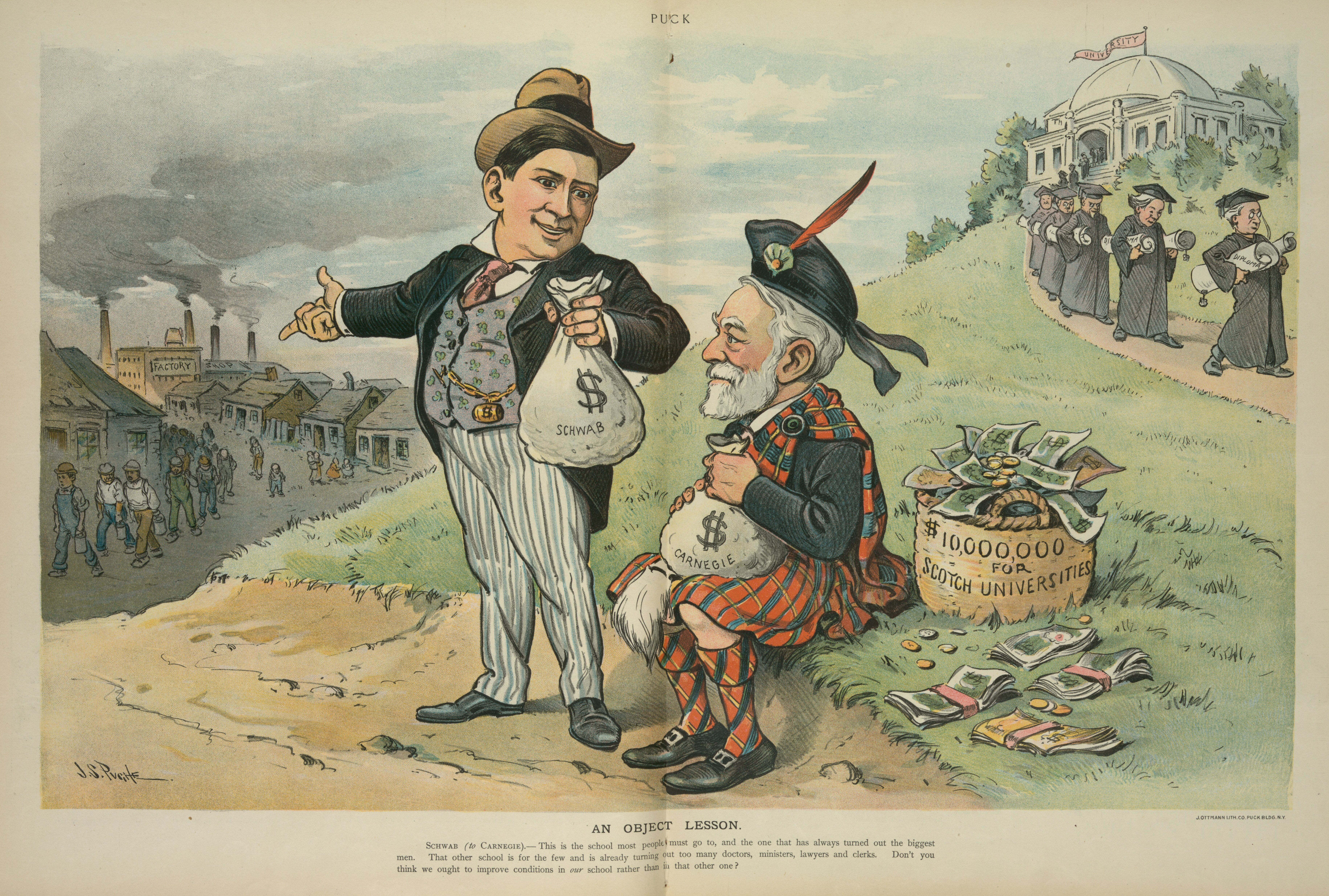 Title: An object lesson / J.S. Pughe. Abstract/medium: 1 print : chromolithograph.